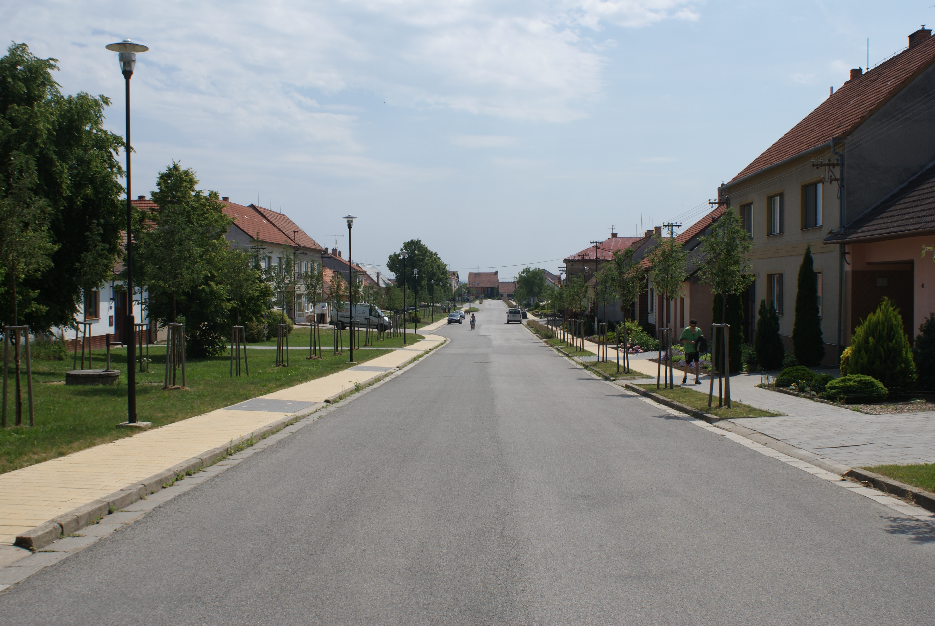 Šakvice, a village in Břeclav District, Czech Republic, the village common.